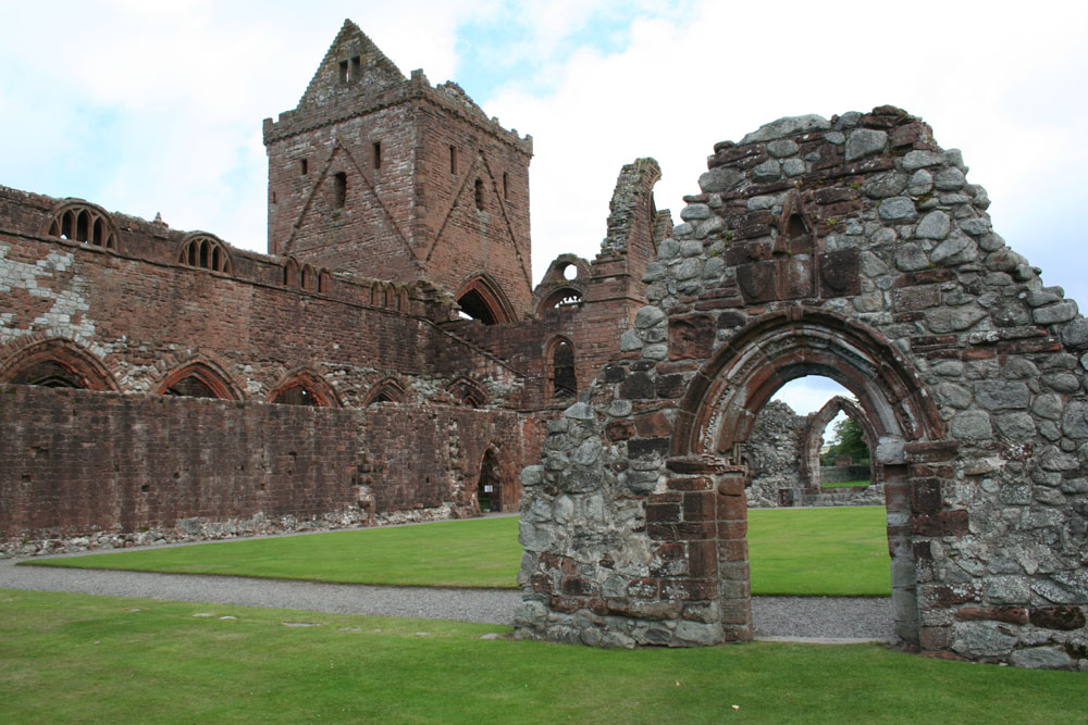 Taken by Ron Waller August 2006. This much-altered stone arch is the entrance to the Abbey grounds.